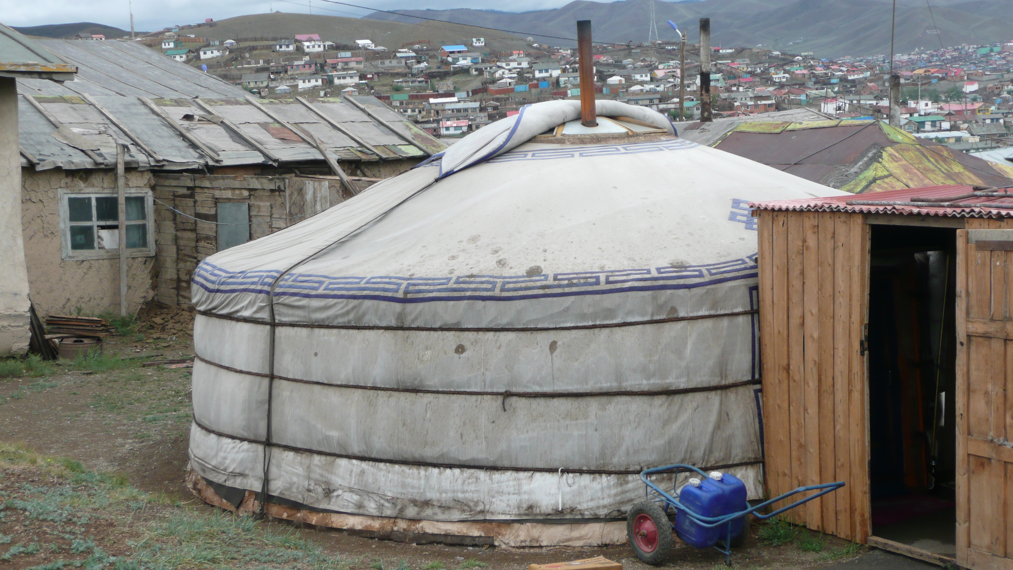 Yurt in Ulan Bator